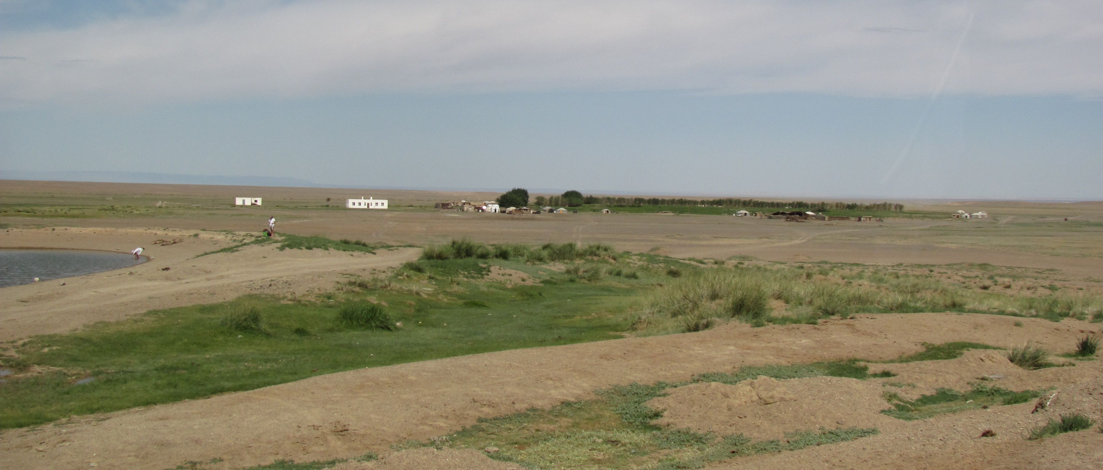 Oasis Dal, Ömnögöv Aimag, Mongolia.